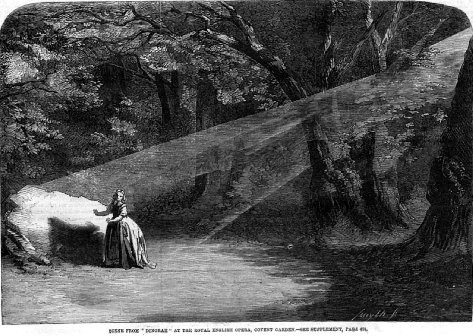 Shadow scene from Meyerbeer's Dinorah at the Royal English Opera Covent Garden